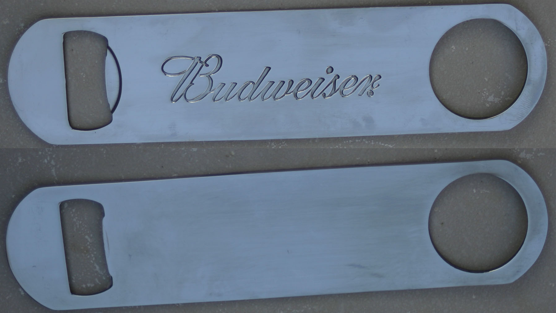 Collages of a "bar blade" bottle opener. All photos taken by, and collage created by myself (Jot Powers) 1/2006.